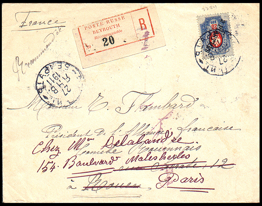 Registered mail cover of a letter sent from Beirut, Lebanon, via Russian Post Office; Russian postage stamp overprinted for Levant; Beirut postal mark; January 27, 1911.